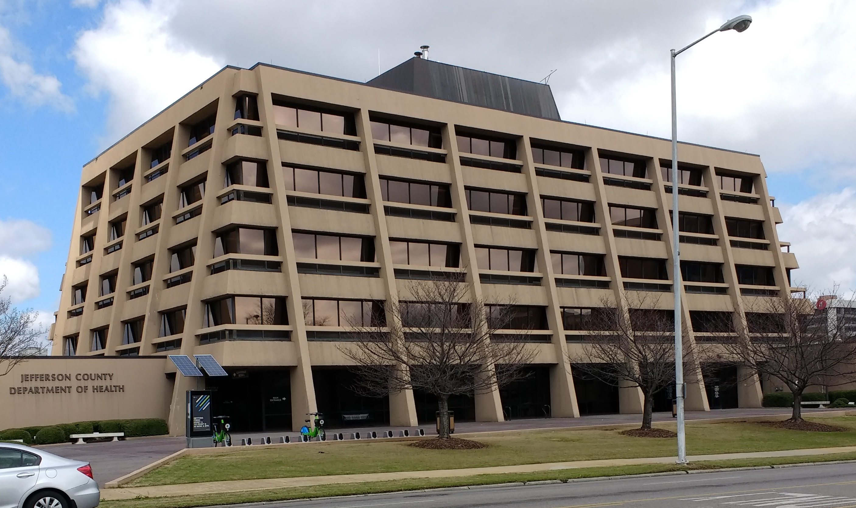 Jefferson County Department of Health building in Birmingham, Alabama.